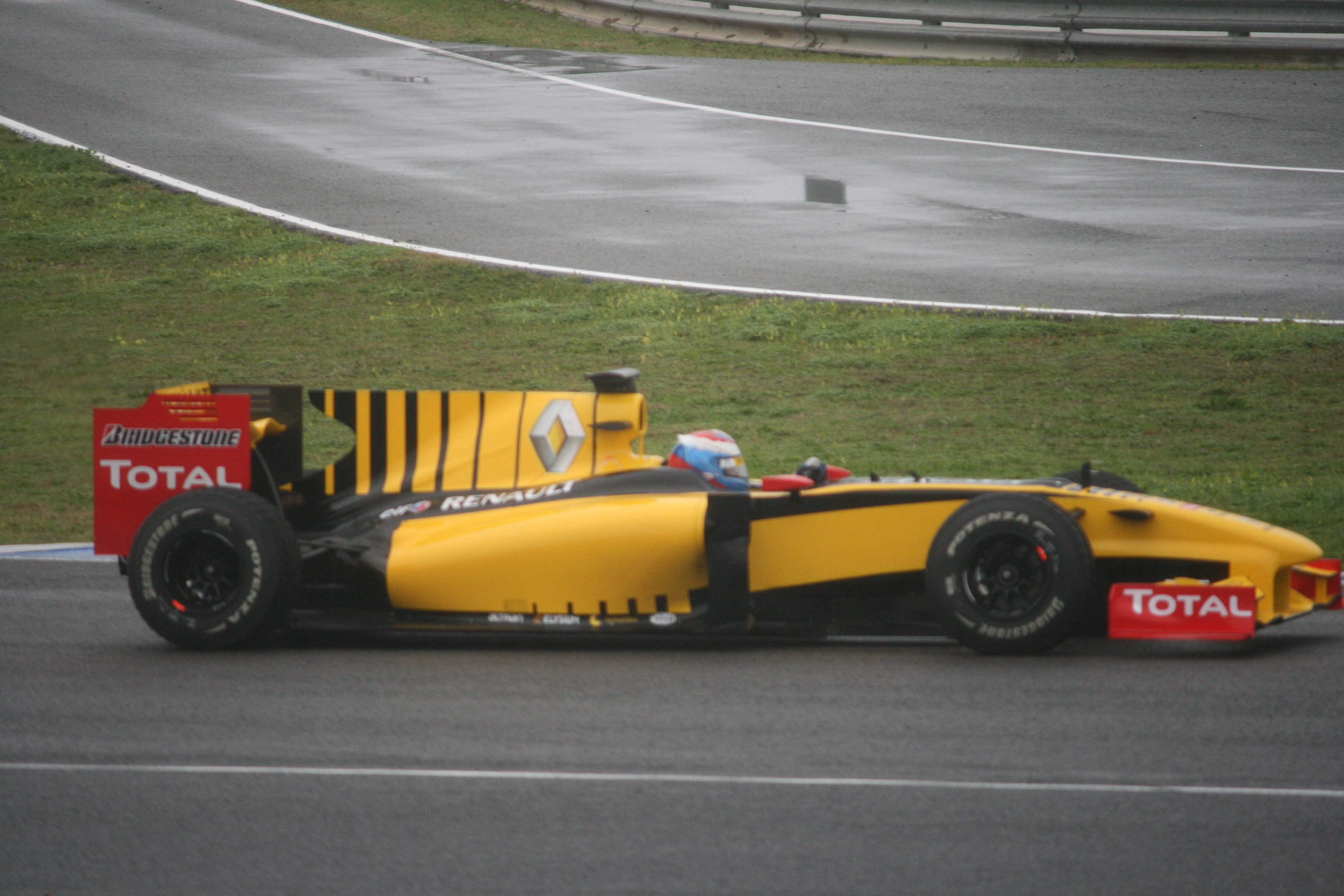 Vitaly Petrov testing for Renault F1 at Jerez, 10/02/2010.